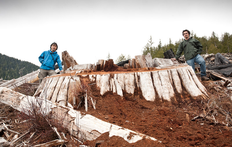 A massive old-growth "redcedar" stump measuring 4.5 m in diameter recently found in a clearcut in a tributary of the Gordon River, near Port Renfrew, BC. 90% of Vancouver Island's valley bottom productive old-growth has been logged to date.